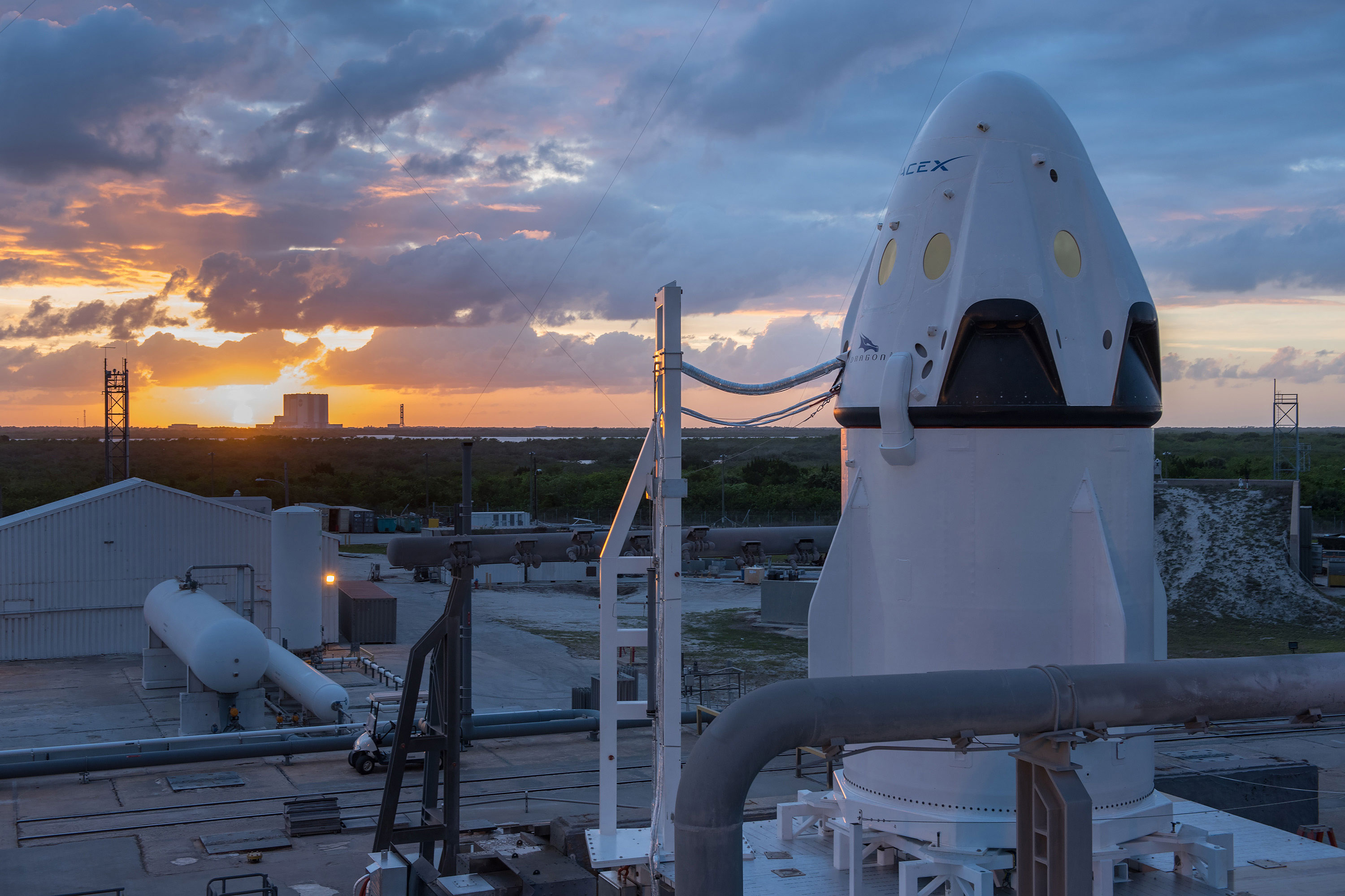 On May 6, 2015, SpaceX completed the first key flight test of its Crew Dragon spacecraft, a vehicle designed to carry astronauts to and from space. The successful Pad Abort Test was the first flight test of SpaceX's revolutionary launch abort system, and the data captured here will be critical in preparing Crew Dragon for its first human missions in 2017.